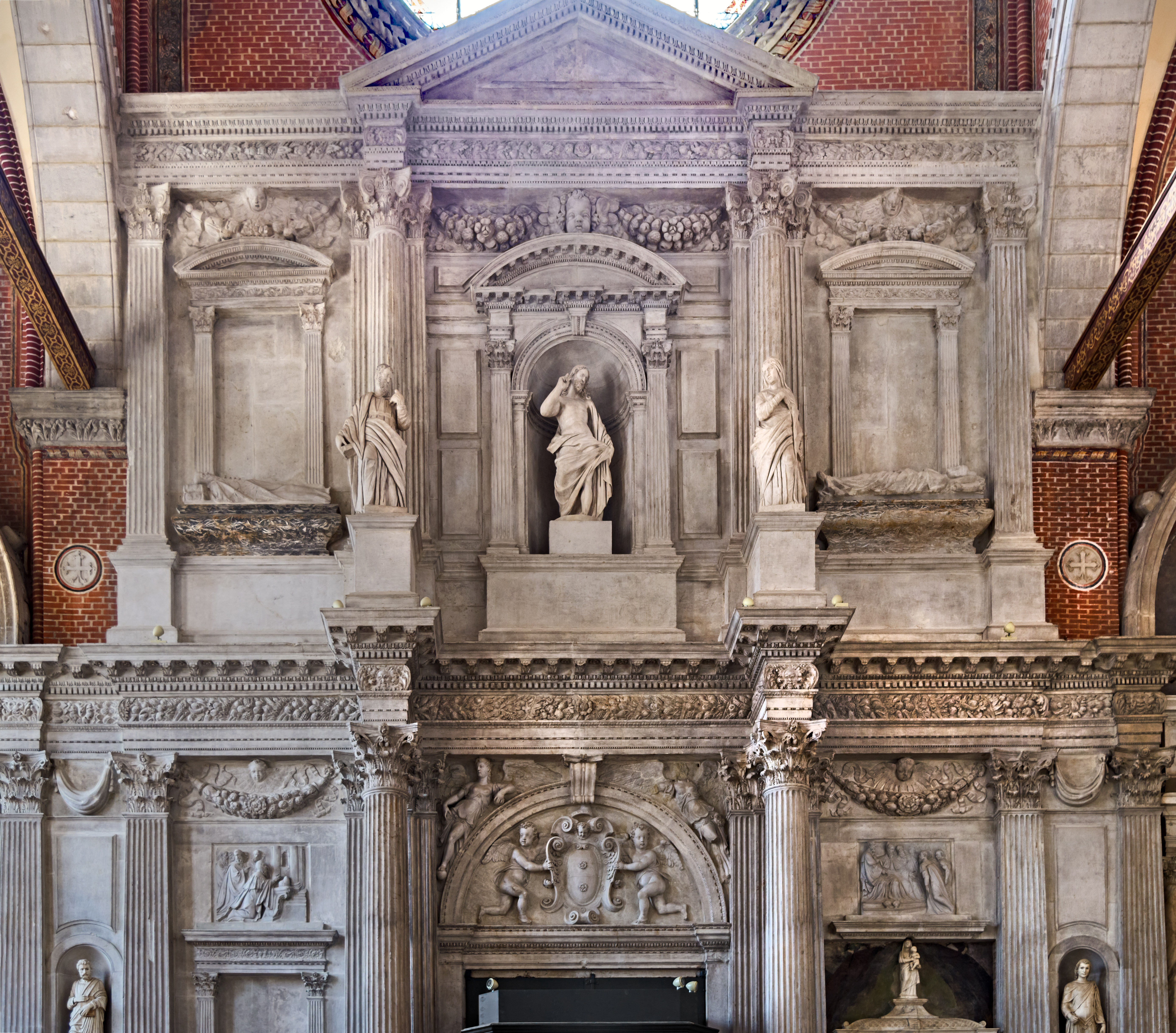 Santi Giovanni e Paolo in Venice, monument of the Doge Alvise I Mocenigo and his wife Loredana Marcello by Girolamo Grapiglia and Francesco Contin